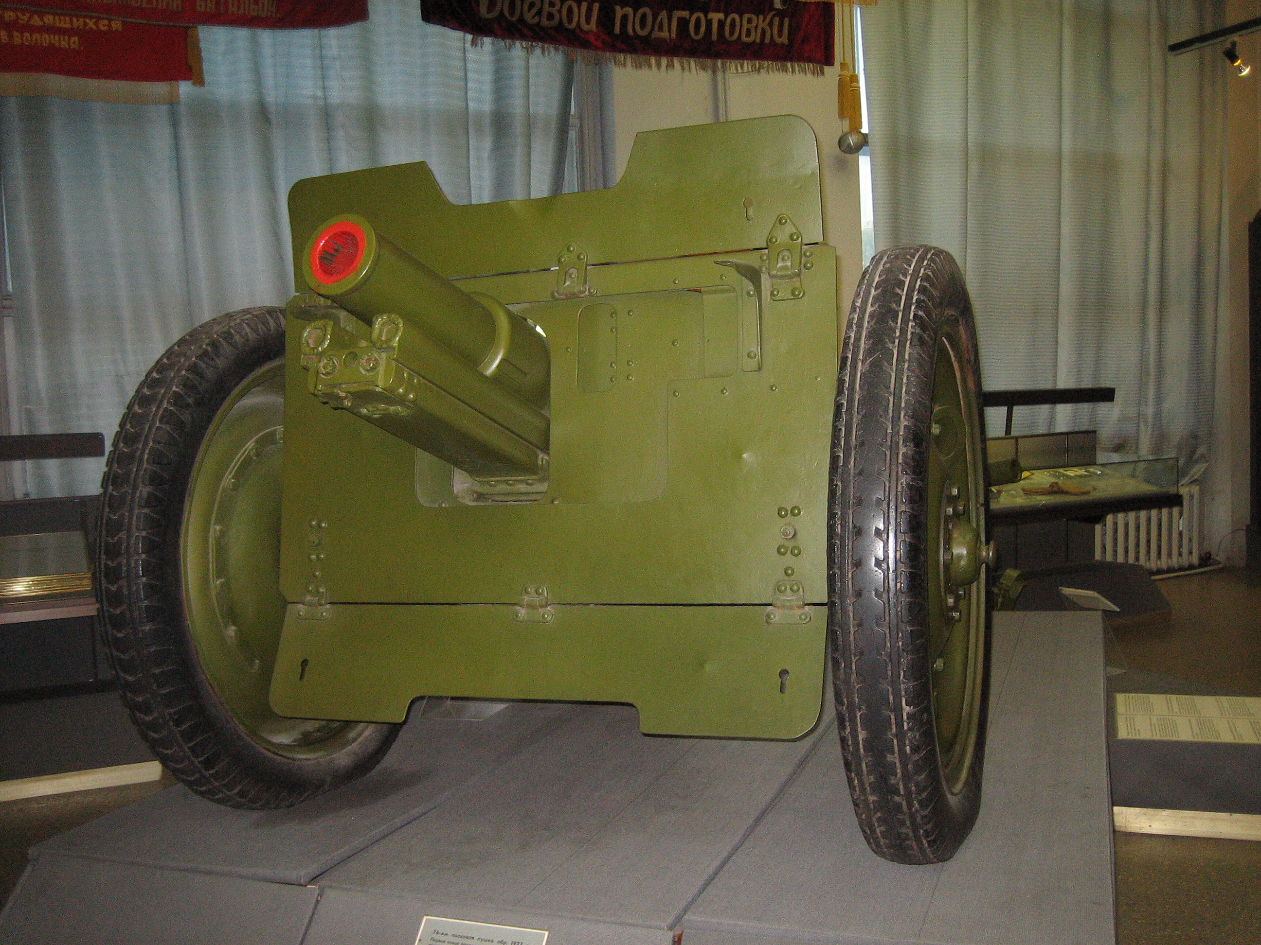 Soviet 76mm Regimental gun 1 gun, displayed in Moscow Military Museum. Photo taken on 19 July, 2007. Source: Photo by me, User:Saiga20K.